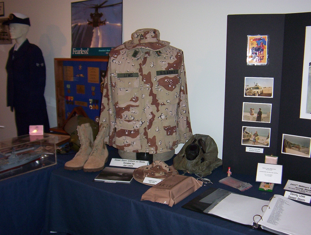 Photograph of exhibits in the Veterans' Museum in Halls, Tennessee. Photo made by: Thomas R Machnitzki I made the photo myself, feel free to use it.